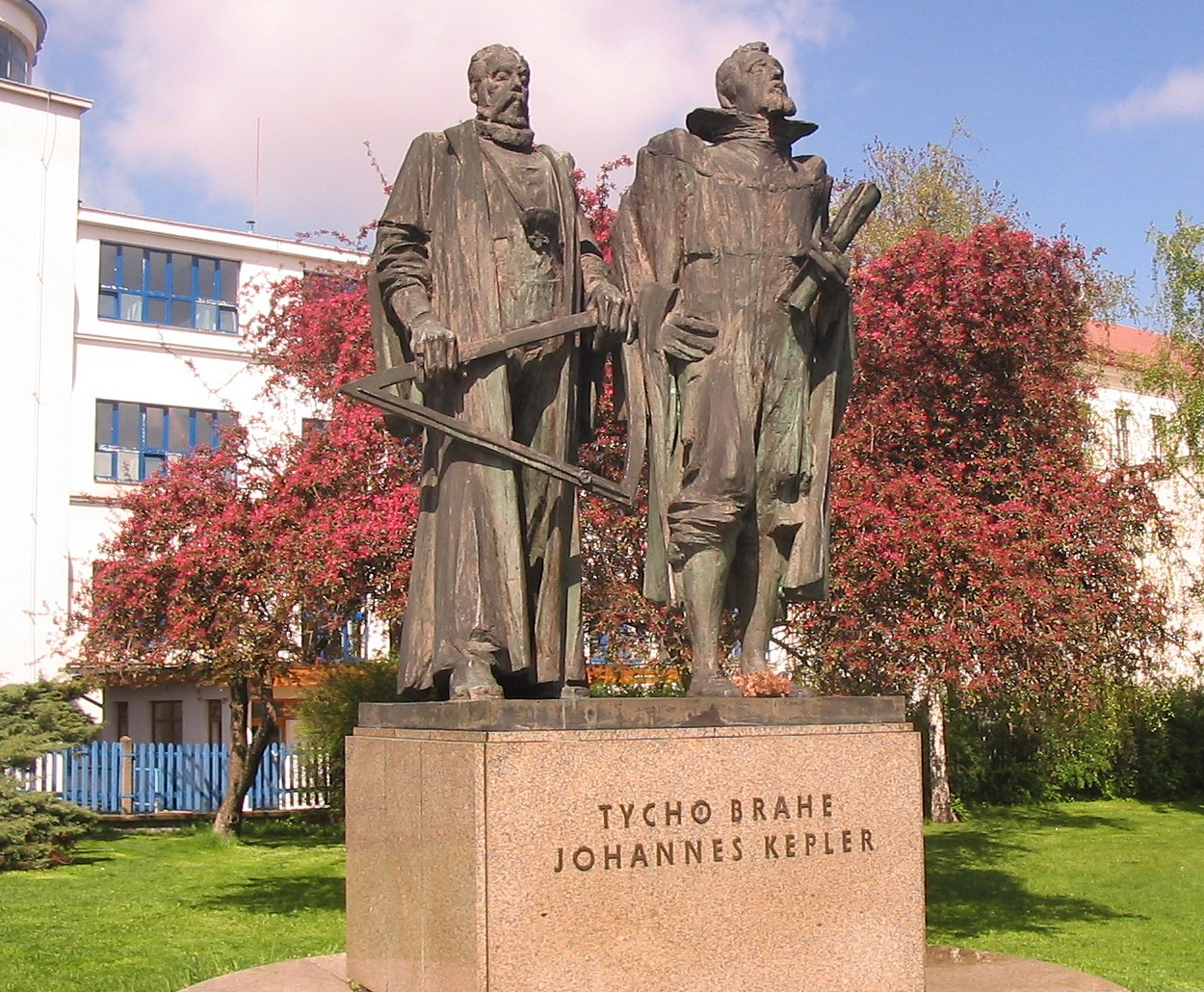 Monument of Tycho Brahe and Johannes Kepler in Prague, Czechia